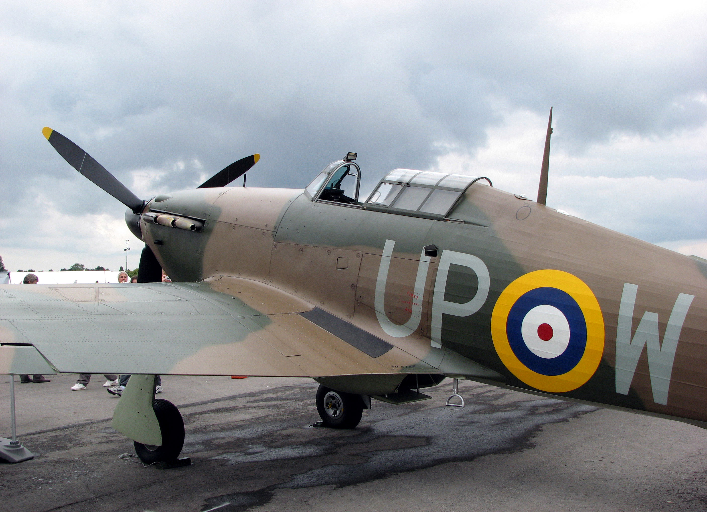 Hurricane Mk1, RAF serial R4118, Squadron code UP-W, at the PFA Flying for Fun Rally at Kemble Airfield, Gloucestershire, England. This aircraft flew 49 combat sorties, destroyed 3 enemy aircraft and damaged 2 others. It carries its original markings.